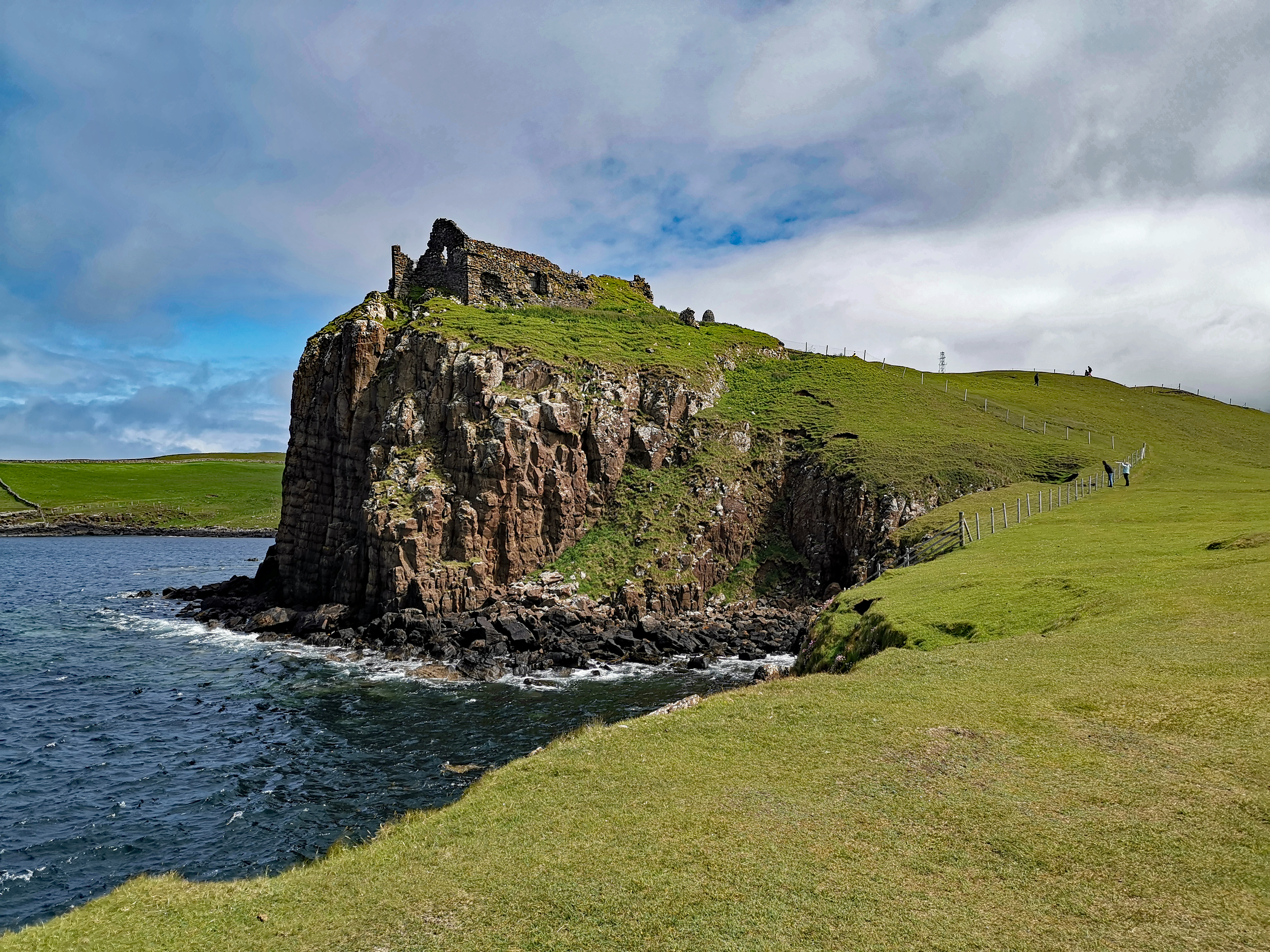 Isle of Skye (Inner Hebrides, Scotland, UK)